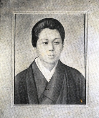 Setsuko, Ohsawa's mother